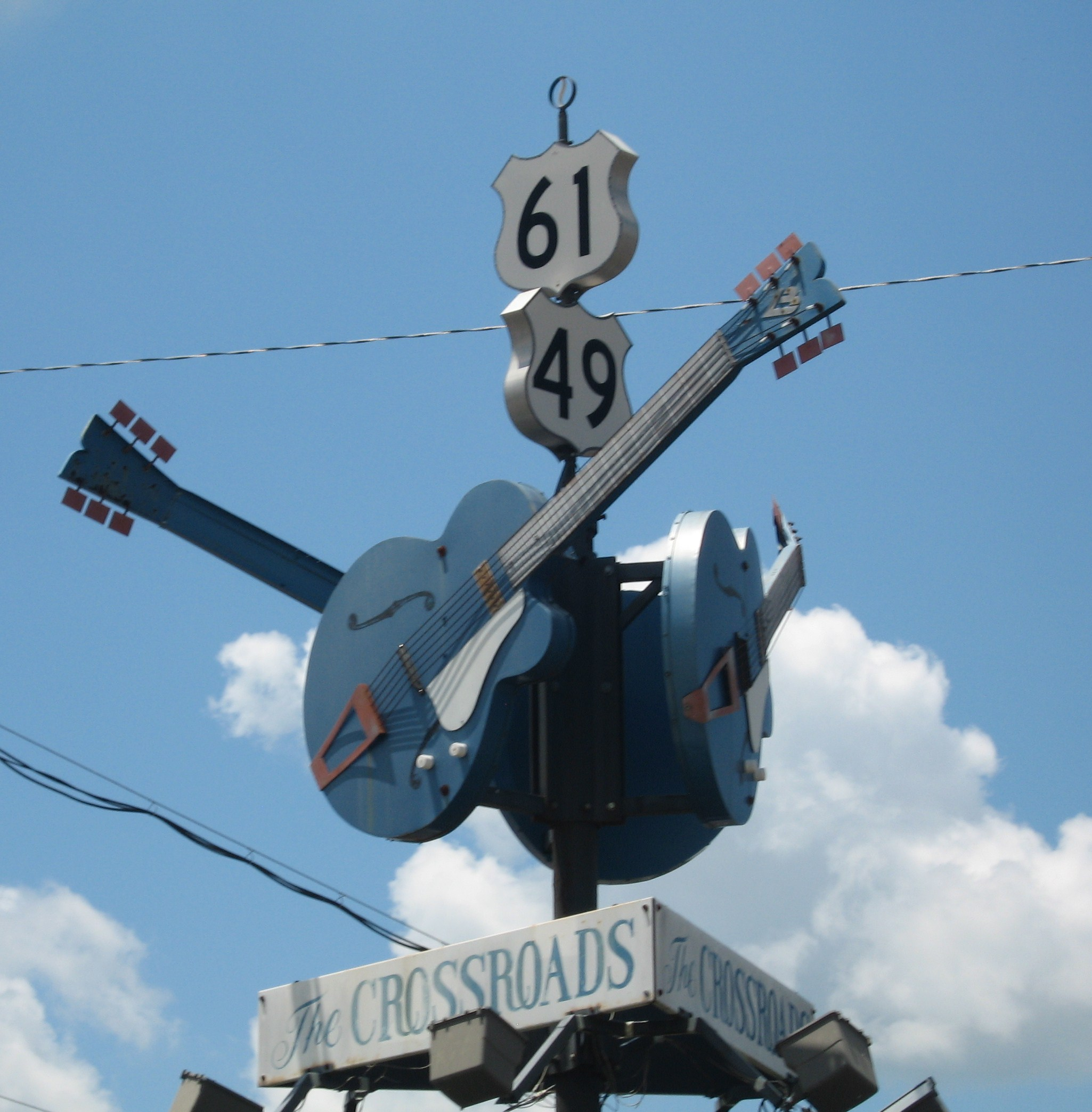 "The Crossroads", where Robert Johnson supposedly sold his soul to the Devil in exchange for mastery of the blues, according to the legend. It is the intersection of U.S. Routes 61 and 49, at Clarksdale, Mississippi, United States.